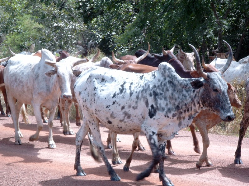 Zebu near Gayéri, eastern Burkina Faso.